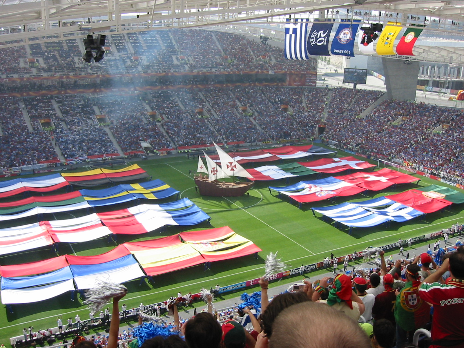 Euro2004 Opening Ceremony